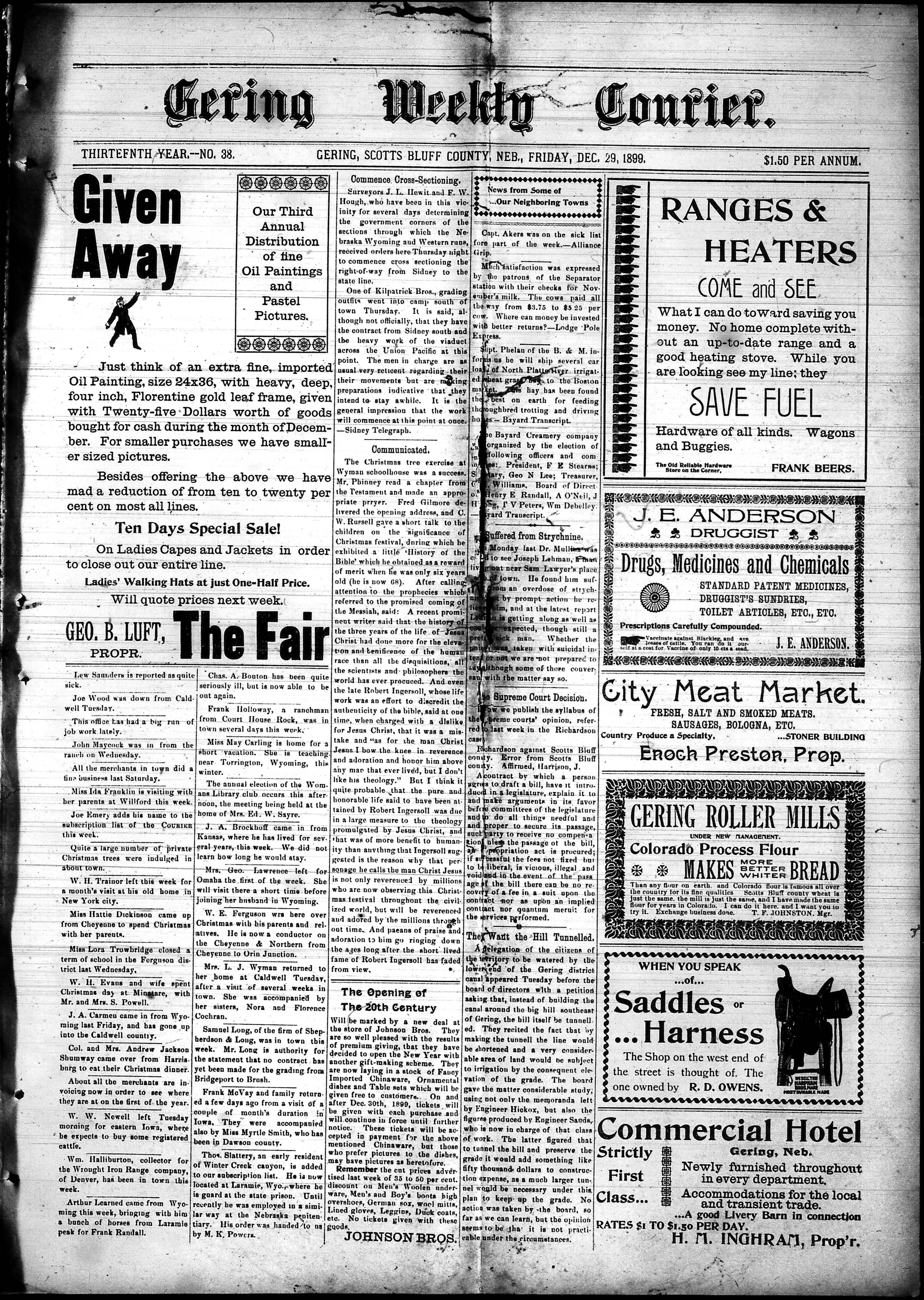 Front page of the 29 December 1899 issue of the Gering Weekly Courier, scanned from microfilm. This was the last issues of the Gering Courier from the nineteenth century. The Gering Courier is published in Gering, Scotts Bluff, Nebraska, United States.